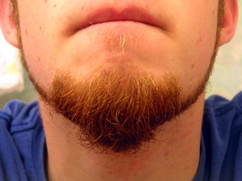 This self-portrait shows a tiered goatee with a chinstrap. My goatee at the time had a longer band of hair in the centre.